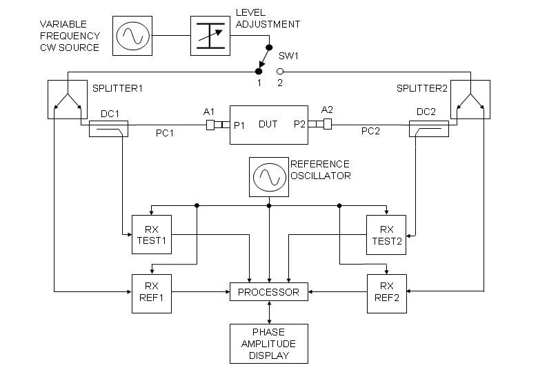 The basic architecture of a two-port vector network analyser